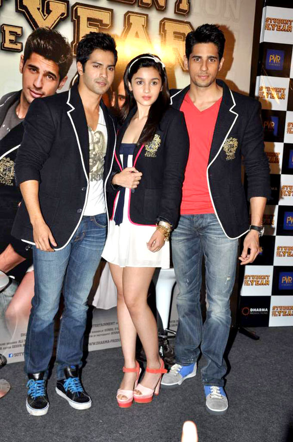 Primary star cast of the film Student of the Year at the Promo launch event.